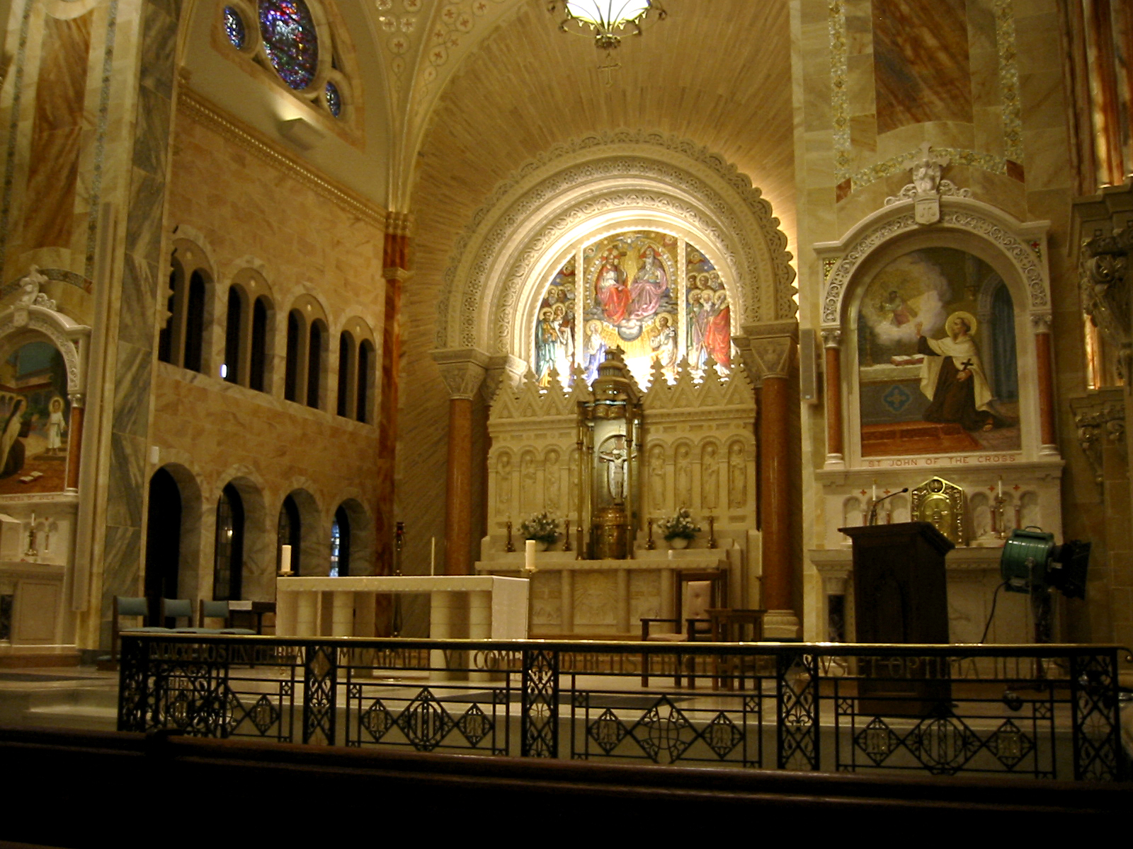 The new sanctuary of Holy Hill, restored by Conrad Schmitt Studios